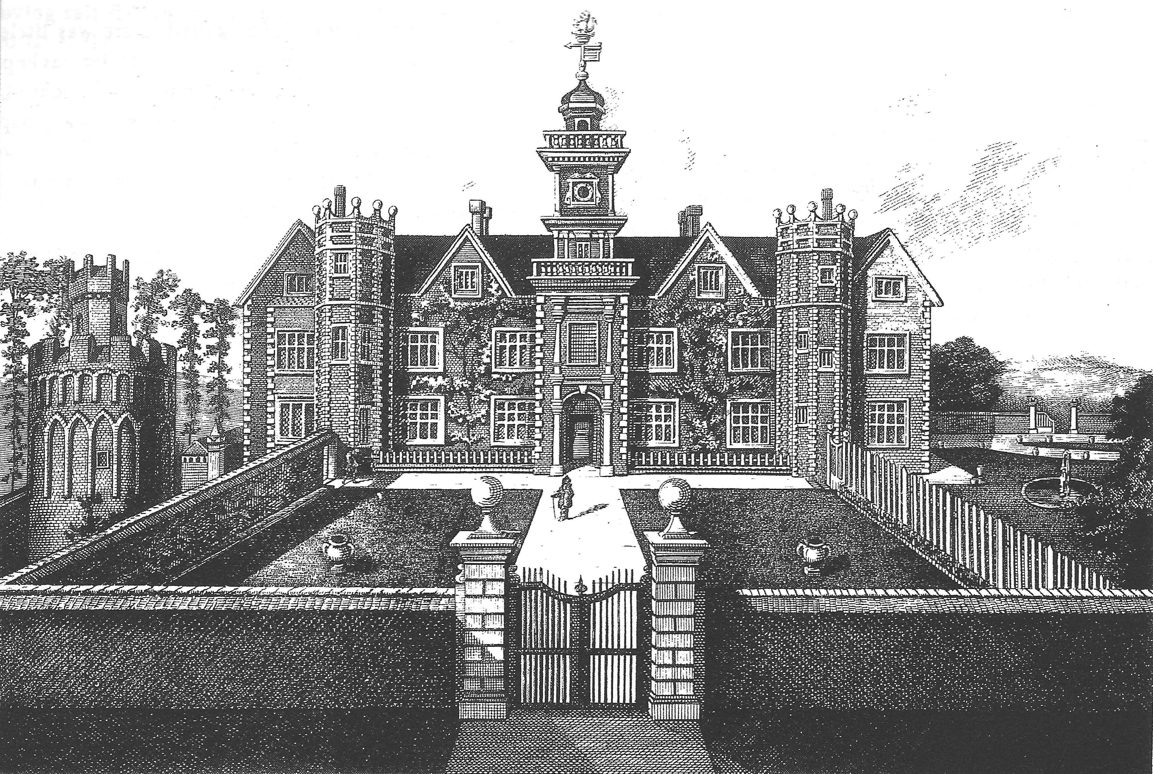 Bruce Castle, London N17, prior to 18th Century alterations